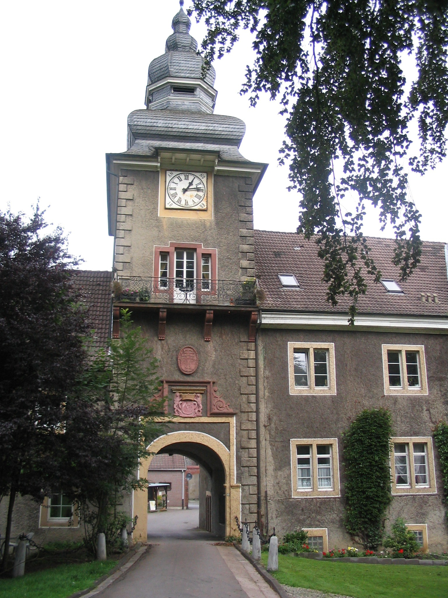 Gatetower of Mühlenburg Castle in town of Spenge, District of Herford, North Rhine-Westphalia, Germany.